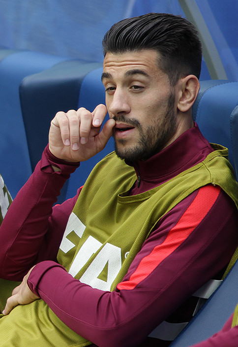 New Zealand VS. Portugal 0 - 4, 24 June 2017